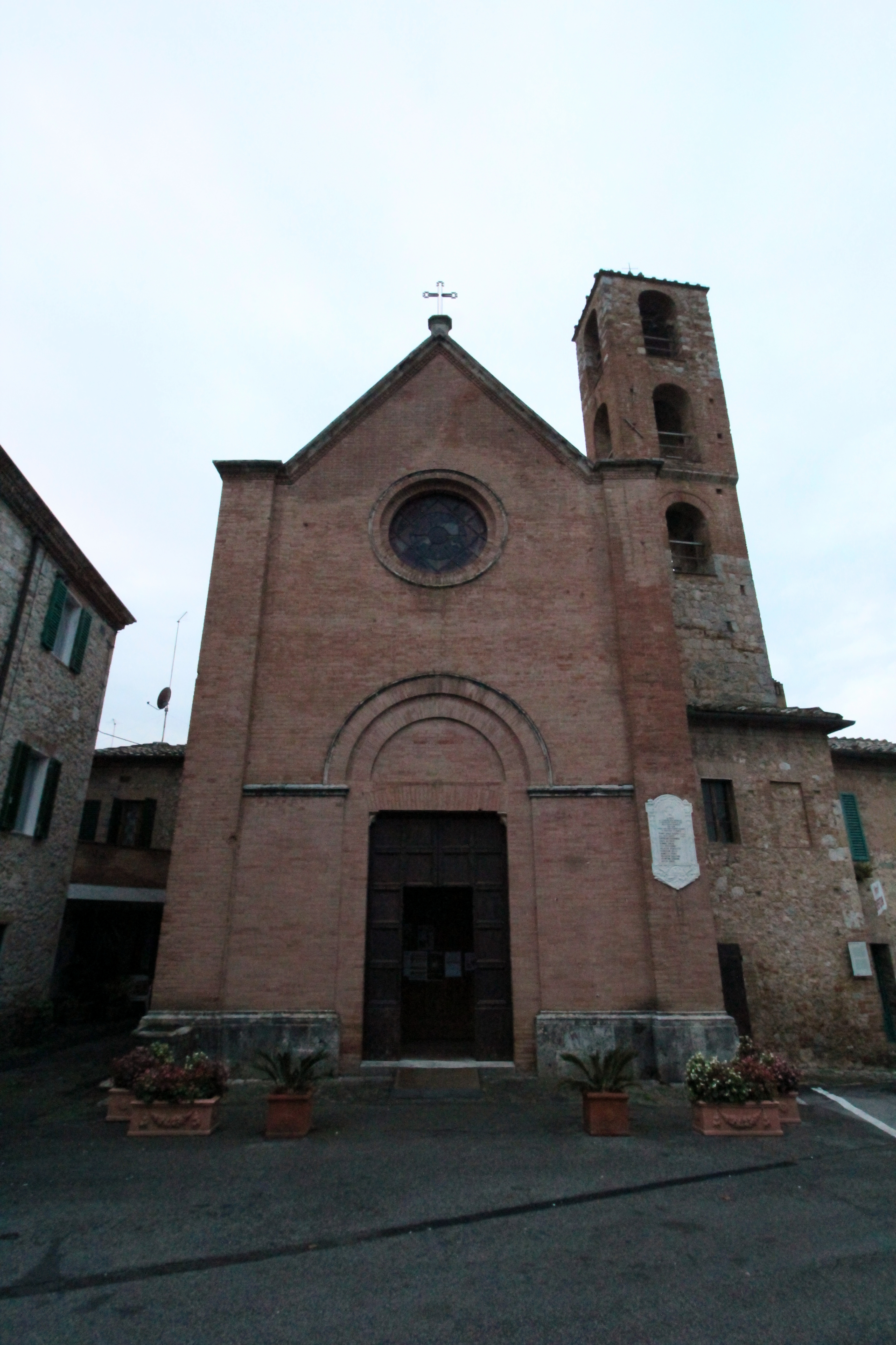 Church of San Lorenzo, Center of Sovicille, Province of Siena, Tuscany, Italy